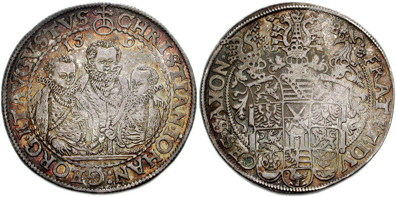 GERMANY, Sachsen. Christian II, with Johann Georg & August, and Friedrich Wilhelm of Sachsen-Altenburg as Regent. AR Taler (40mm, 28.85 g, 5h). Dresden mint; Hans Biener, mintmaster. Dated 1597. CHRISTIAN • IOHAN : GEORG • ET • AVGVSTVS, facing half-length busts of the three brothers / FRAT : ET • DVCES • SAXON •, coat-of-arms surmounted by three helmets. Schnee 754; K&K 186; Davenport 9820. Good VF, toned.